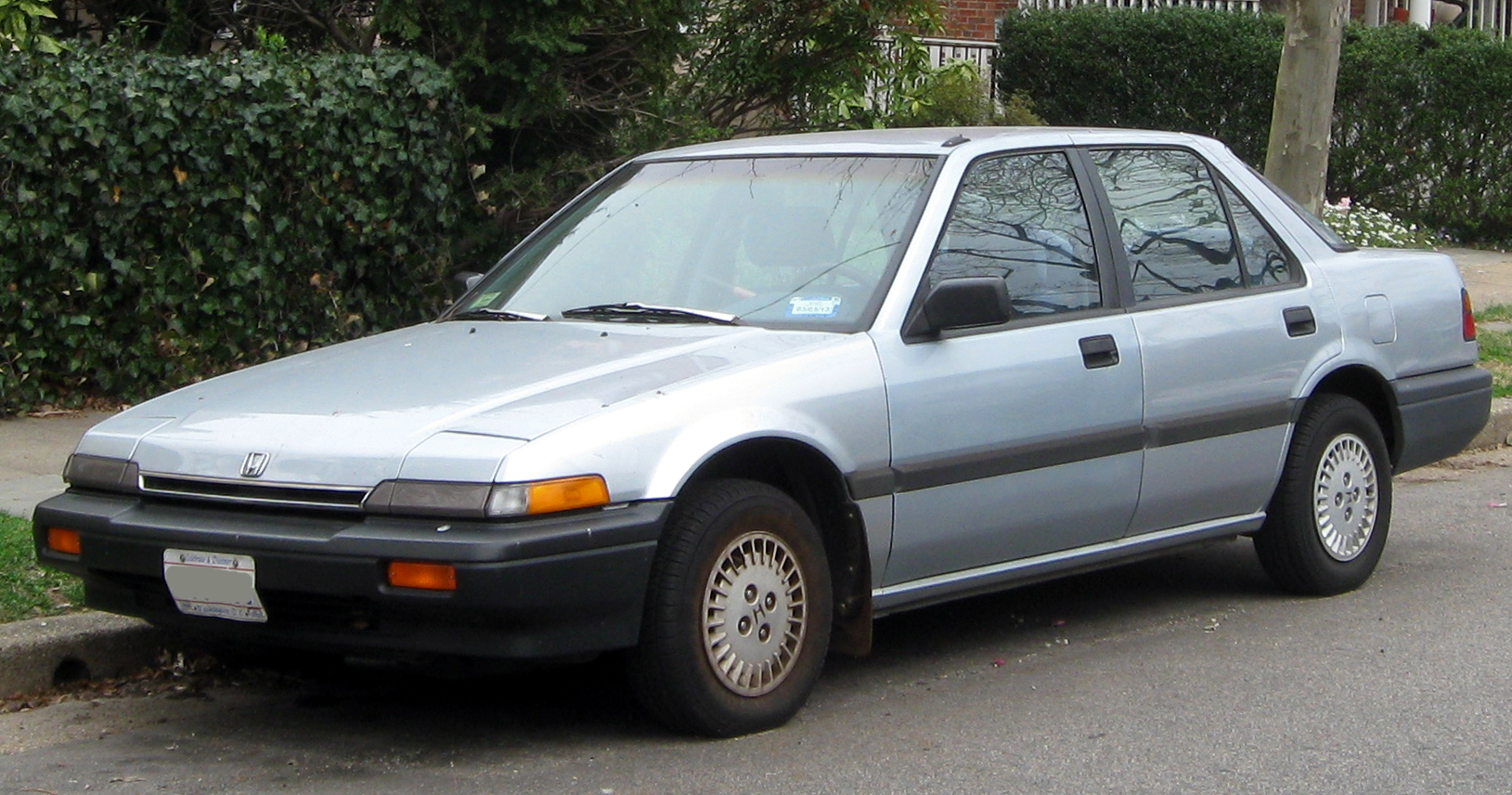 1986-1987 Honda Accord photographed in Washington, D.C., USA.